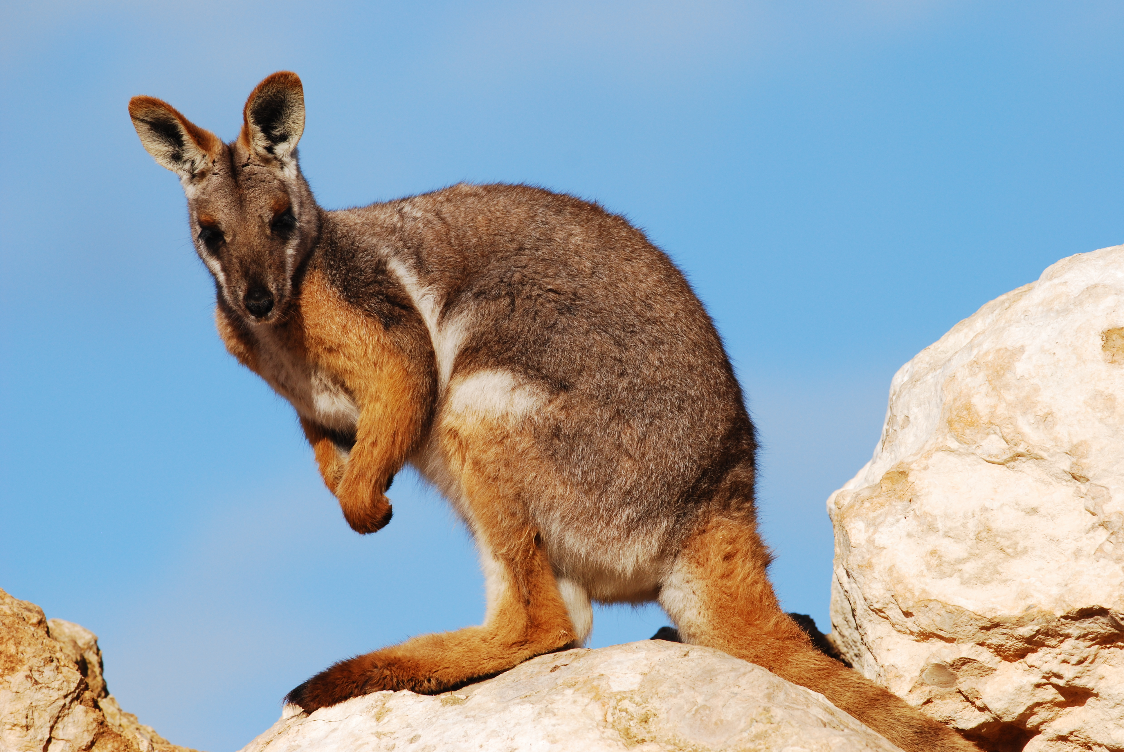 Yellow-footed rock wallaby (Petrogale xanthopus) at Monarto Zoo, South Australia